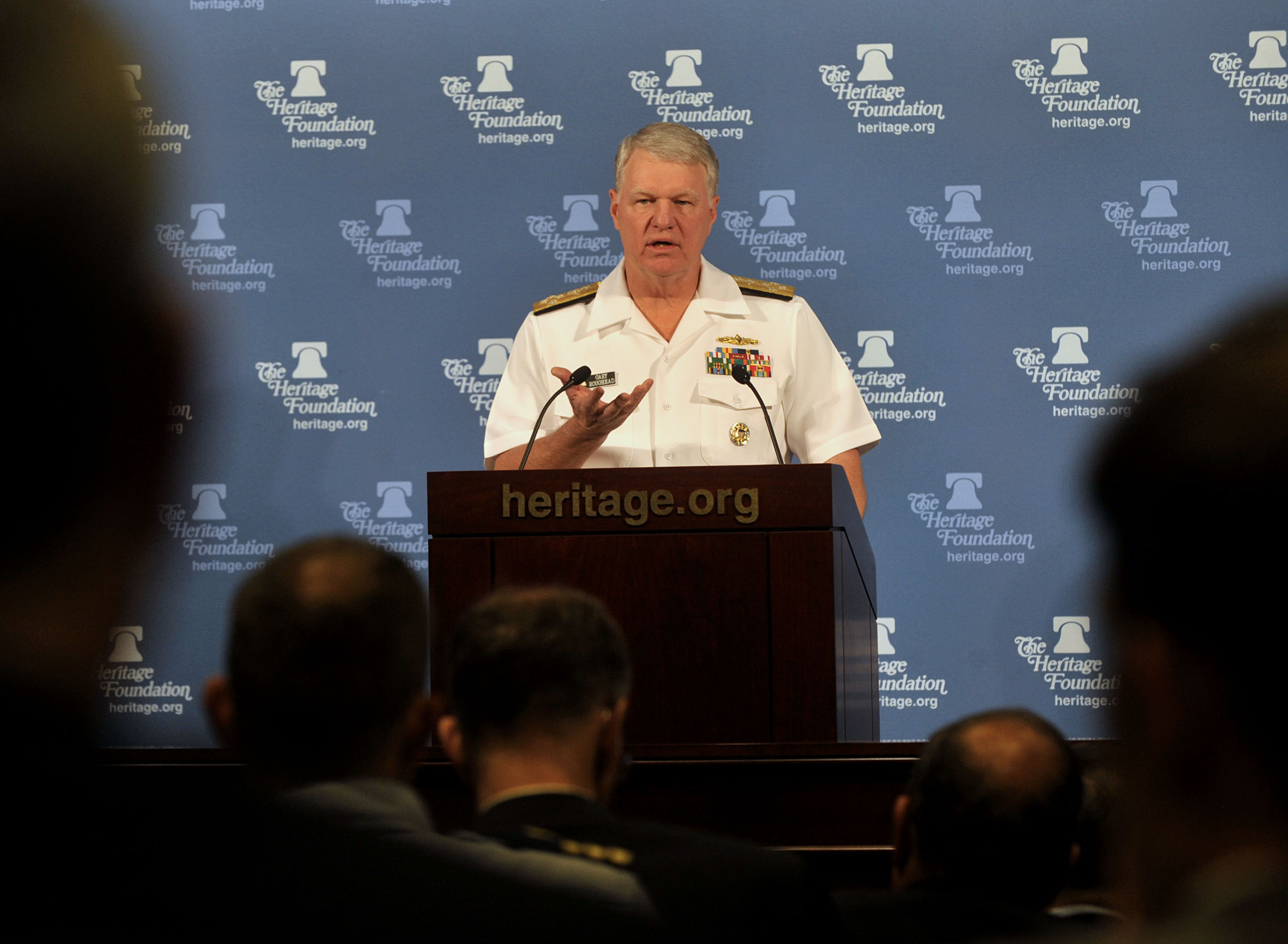 WASHINGTON (May 13, 2010) Chief of Naval Operations (CNO) Adm. Gary Roughead speaks at the Heritage Foundation's annual series of events aimed at highlighting key national defense and homeland security issues. Adm. Roughead spoke on the Maritime Challenges and the Future of the U.S. Navy. (U.S. Navy photo by Mass Communication Specialist First Class Tiffini Jones Vanderwyst/Released)